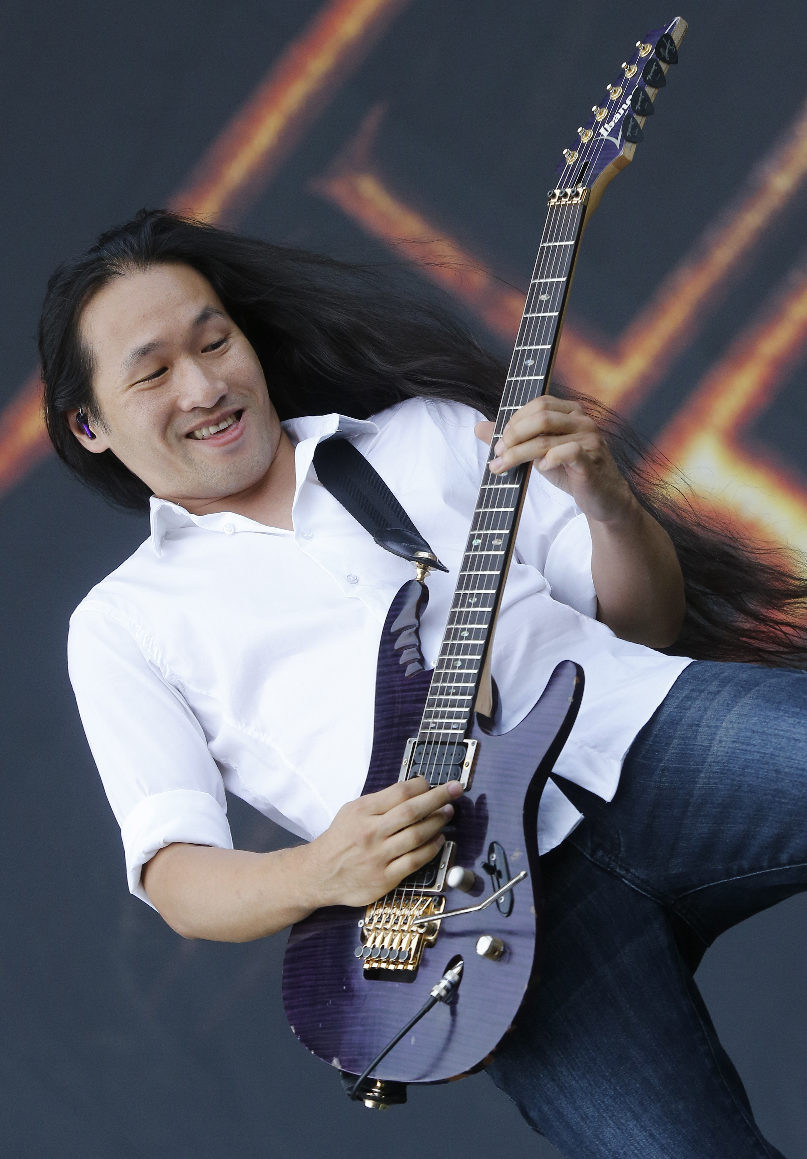 Herman Li, guitarist and producer of DragonForce at Nova Rock-Festival 2013.